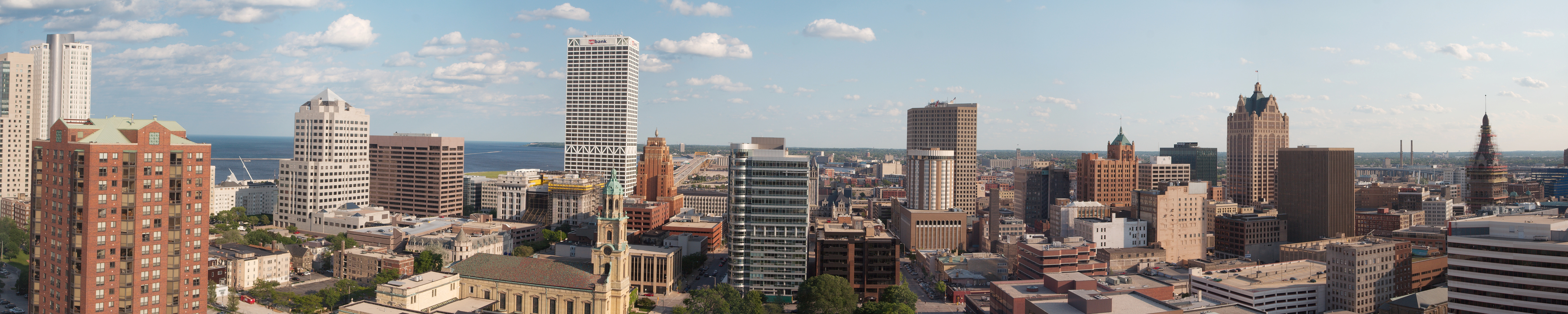 A panorama of the east side of downtown Milwaukee, Wisconsin.